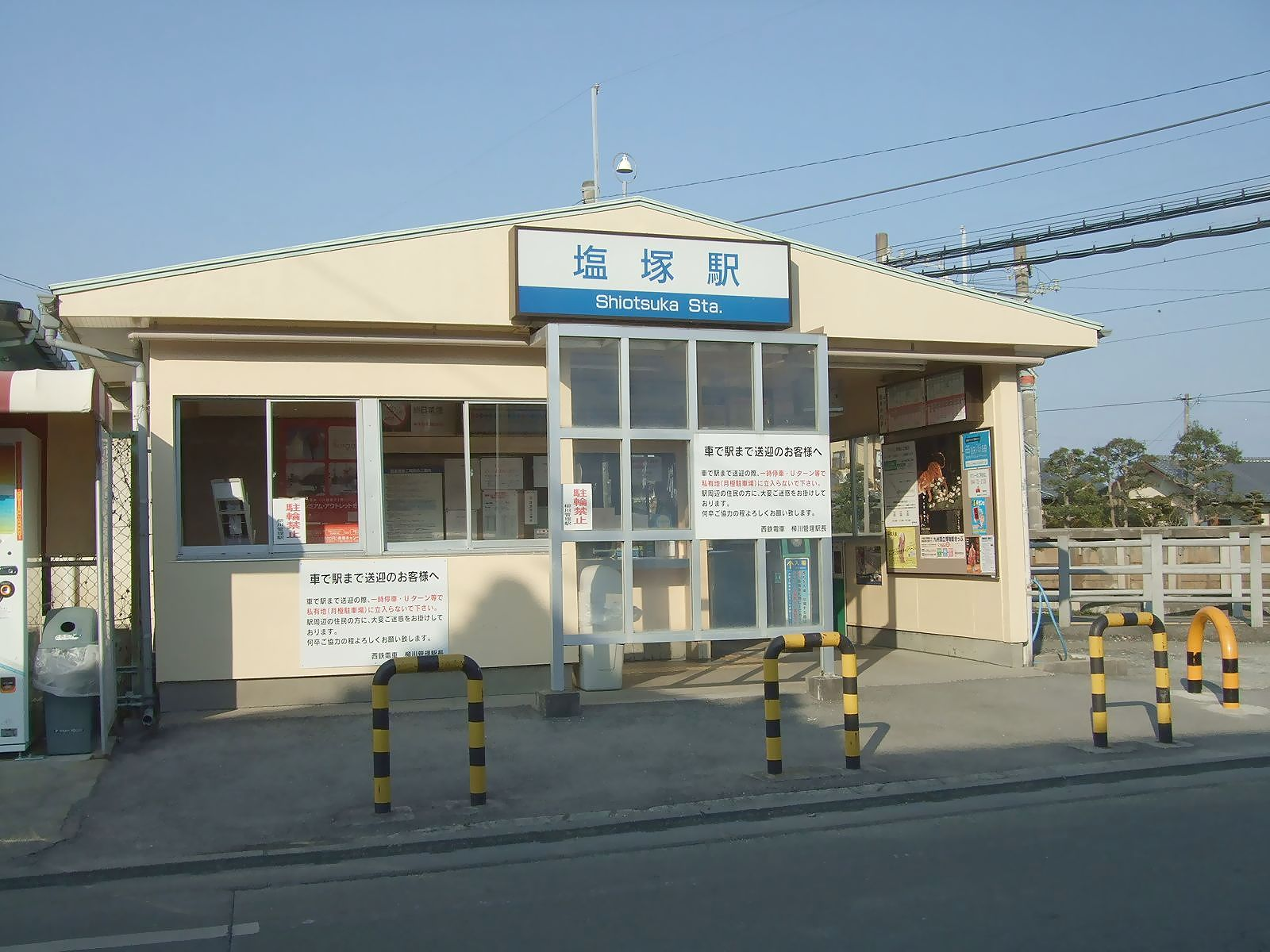 Shiotsuka Station, Nishitetsu Tenjin Omuta Line.